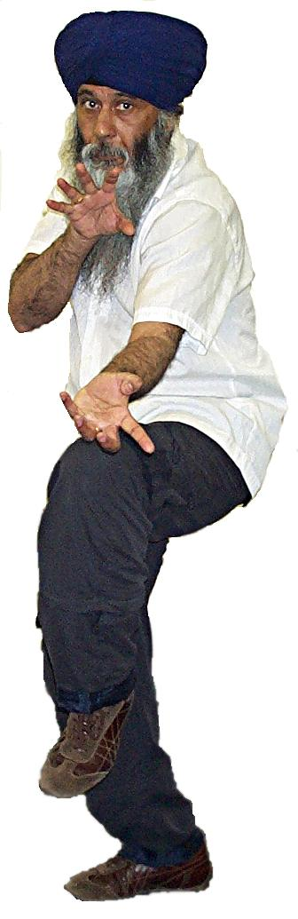 Mangu Mal Singh performing a tiger claws technique in a Bak Mei form. Image has been enhanced and background blanked using the Gimp.